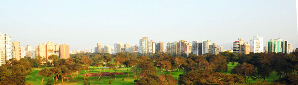 Lima, Peru San Isidro Golf.